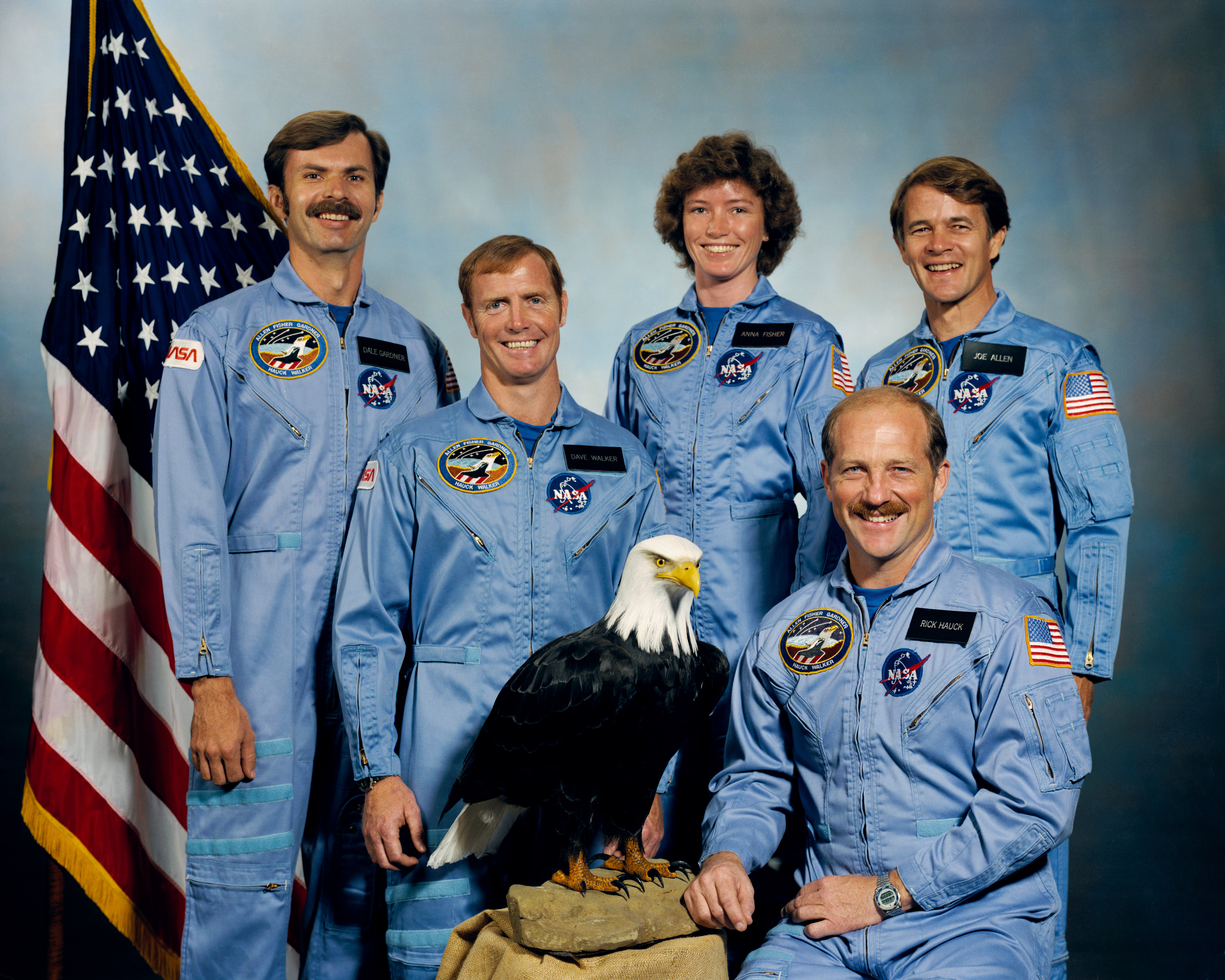 The crew assigned to the STS-51A mission included Frederick H. Hauck, commander,who is seated to the right. Standing, left to right, are Dale A. Gardner, mission specialist; David M. Walker, pilot; and mission specialists Anna L. Fisher, and Joseph P. Allen. Launched aboard the Space Shuttle Discovery on November 8, 1984 at 7:15:00 am (EST), the STS-51A mission deployed the Canadian communications satellite TELLESAT-H (ANIK), and the defense communications satellite SYCOM IV-1 (also known as LEASAT-1). In addition, 2 malfunctioning satellites were retrieved: the PALAPA-B2 and the WESTAR-VI.